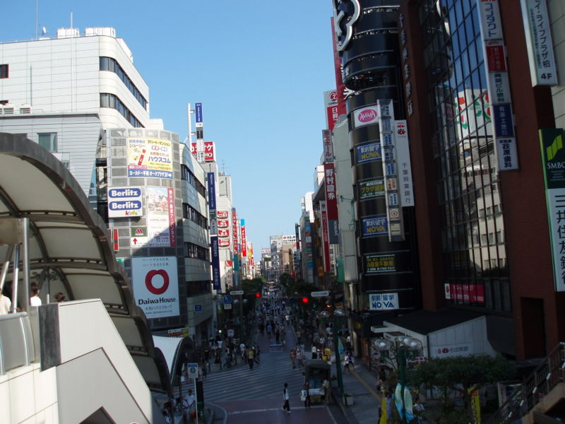 Looking east from Kashiwa Station, Japan..